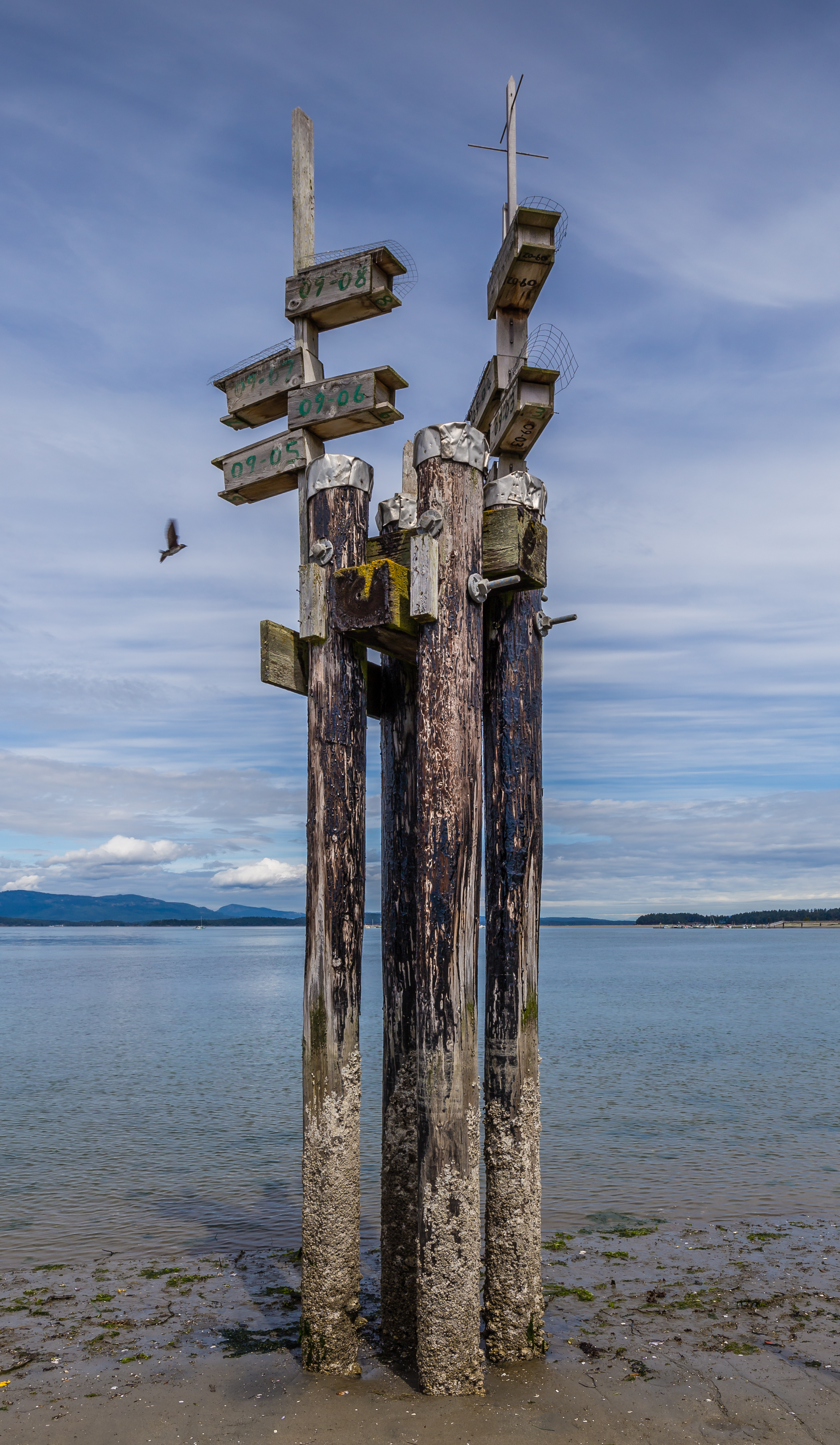 Birdhouses on wooden columns. Picture taken during low tide - during high tide the bottom parts are under water. Sidney Spit (part of Gulf Islands National Park Reserve), Sidney Island, British Columbia, Canada